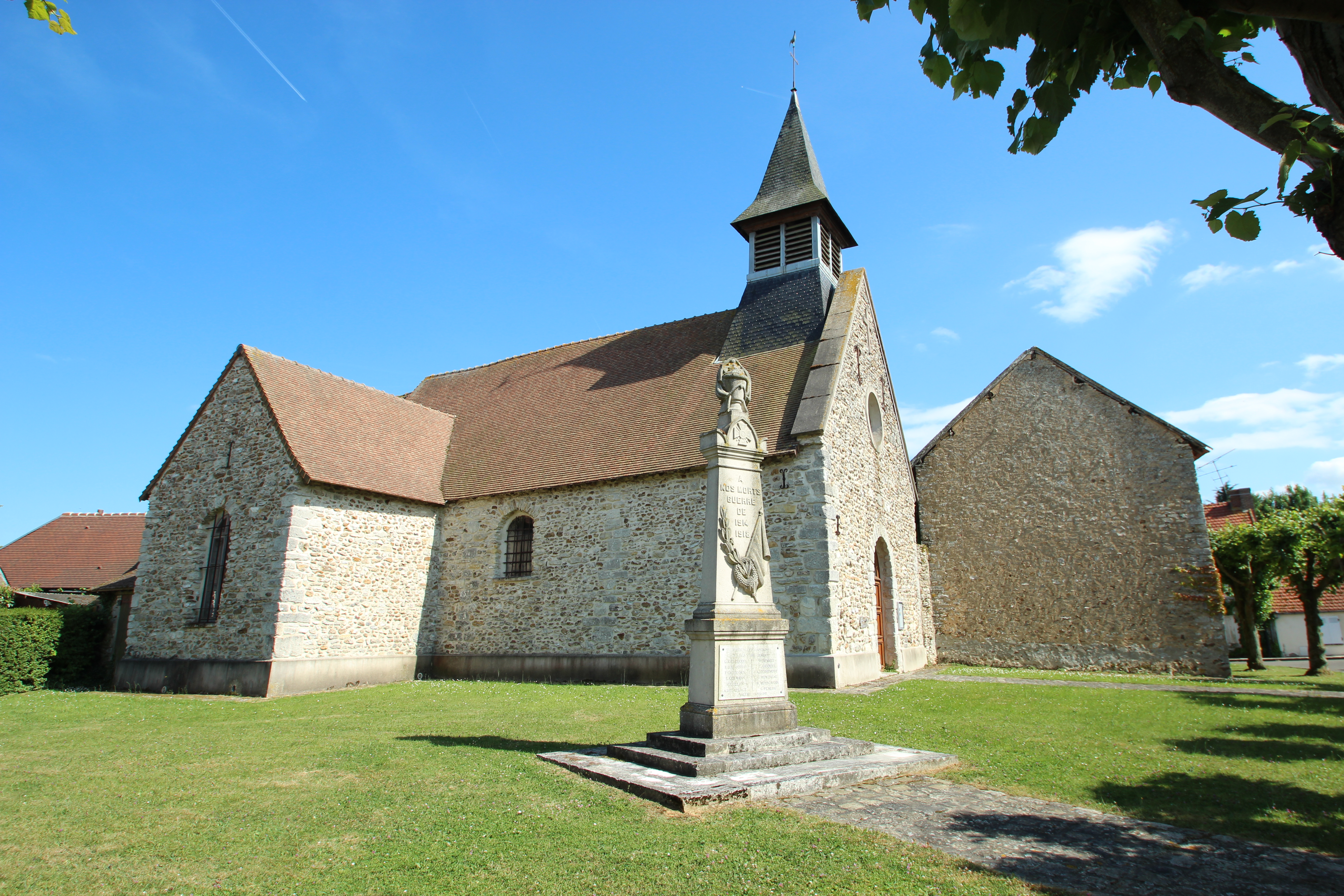 War memorial in Chaufour-lès-Bonnières, France. Object location49° 00′ 57.92″ N, 1° 29′ 00.49″ E This picture as been uploaded as part of L'Été des régions Wikipédia.